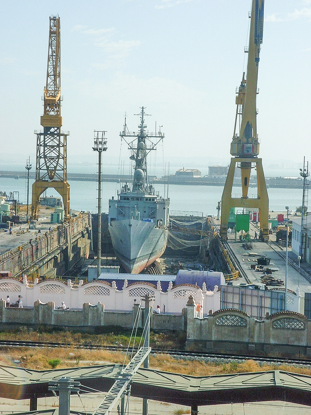 One of the frigates in drydock at Cádiz